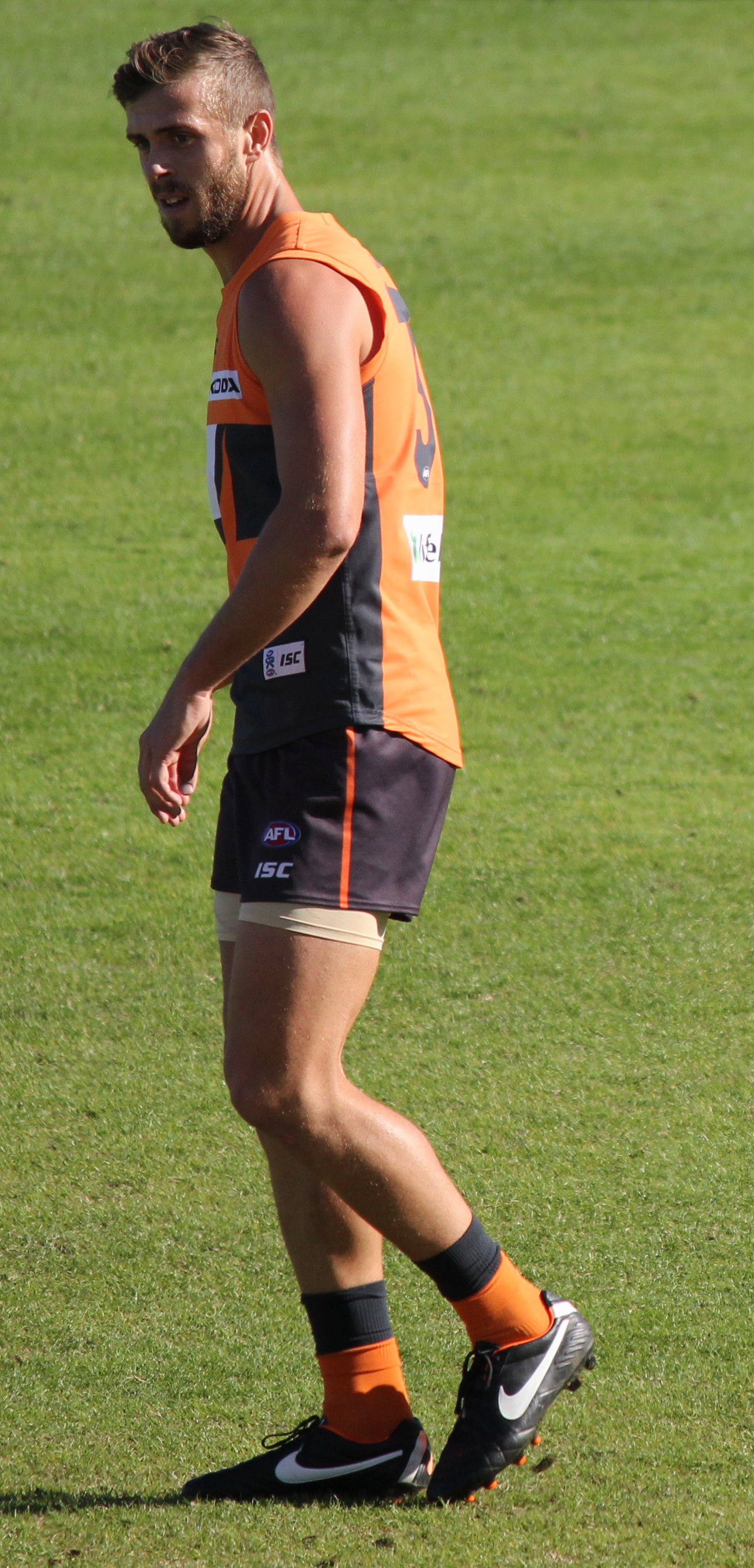 2012 Round 7. GWS Giants vs Gold Coast Suns. Manuka Oval.